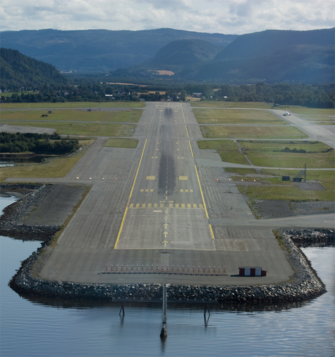 Picture of Runway 09 at Trondheim Airport, Værnes